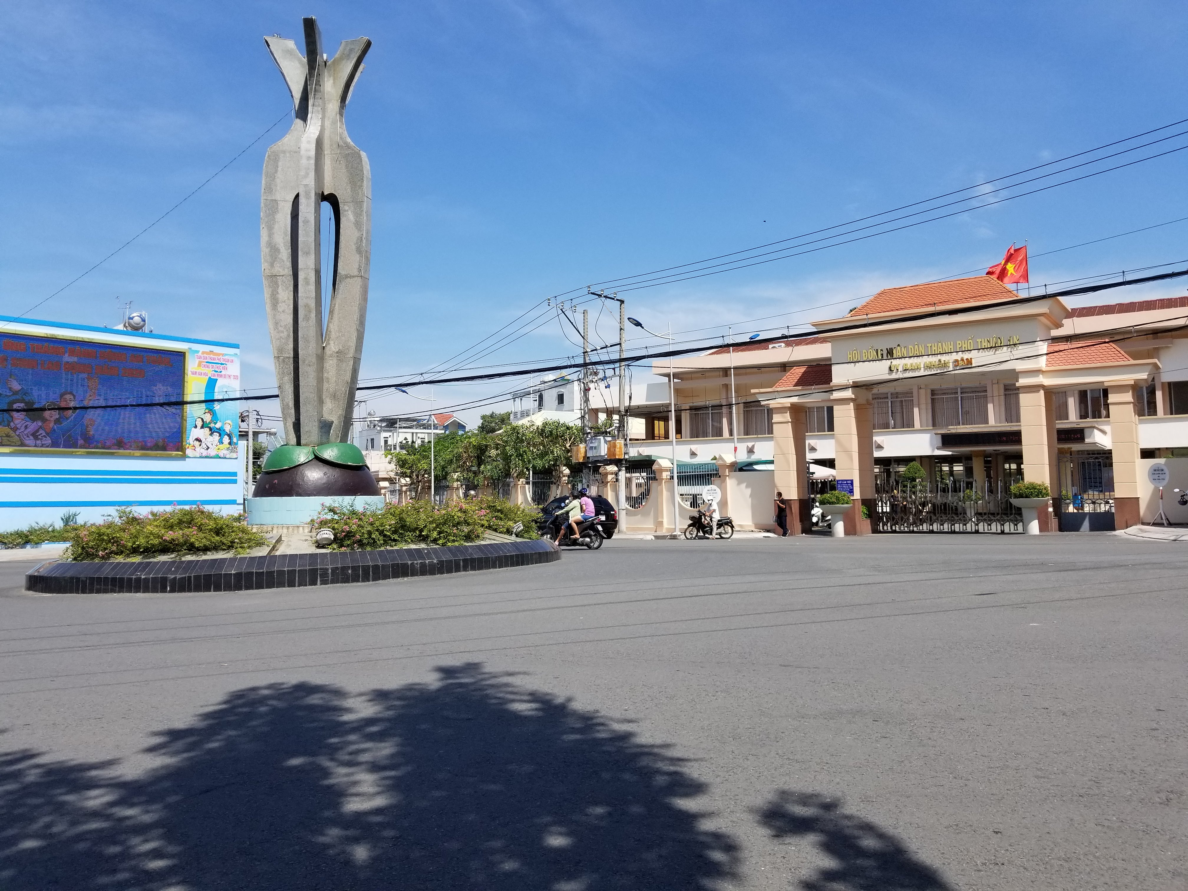 People Committee of Thuan An City's roundabout (took on June 18th 2020).